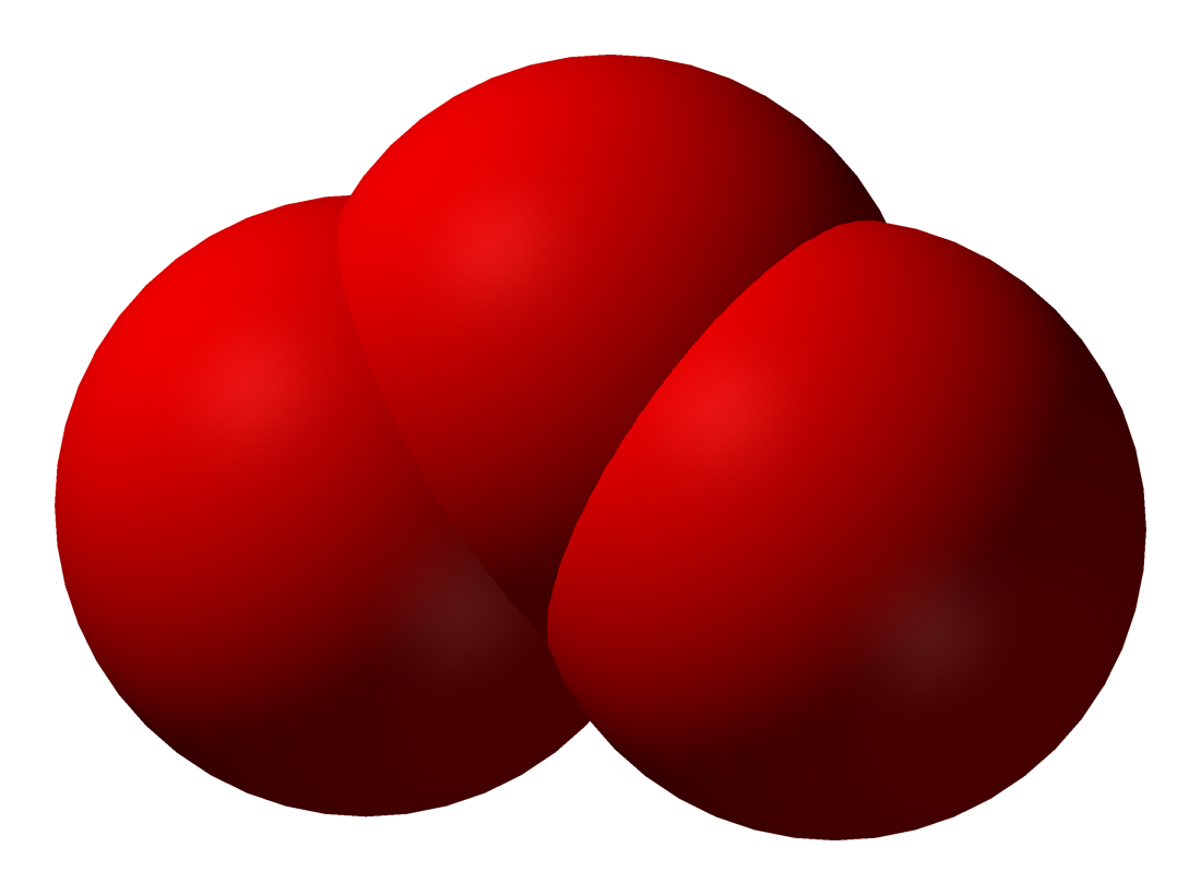 Space-filling model of the ozone molecule, O3. Structure, determined by microwave spectroscopy, from CRC Handbook, 88th edition. Image generated in Accelrys DS Visualizer.